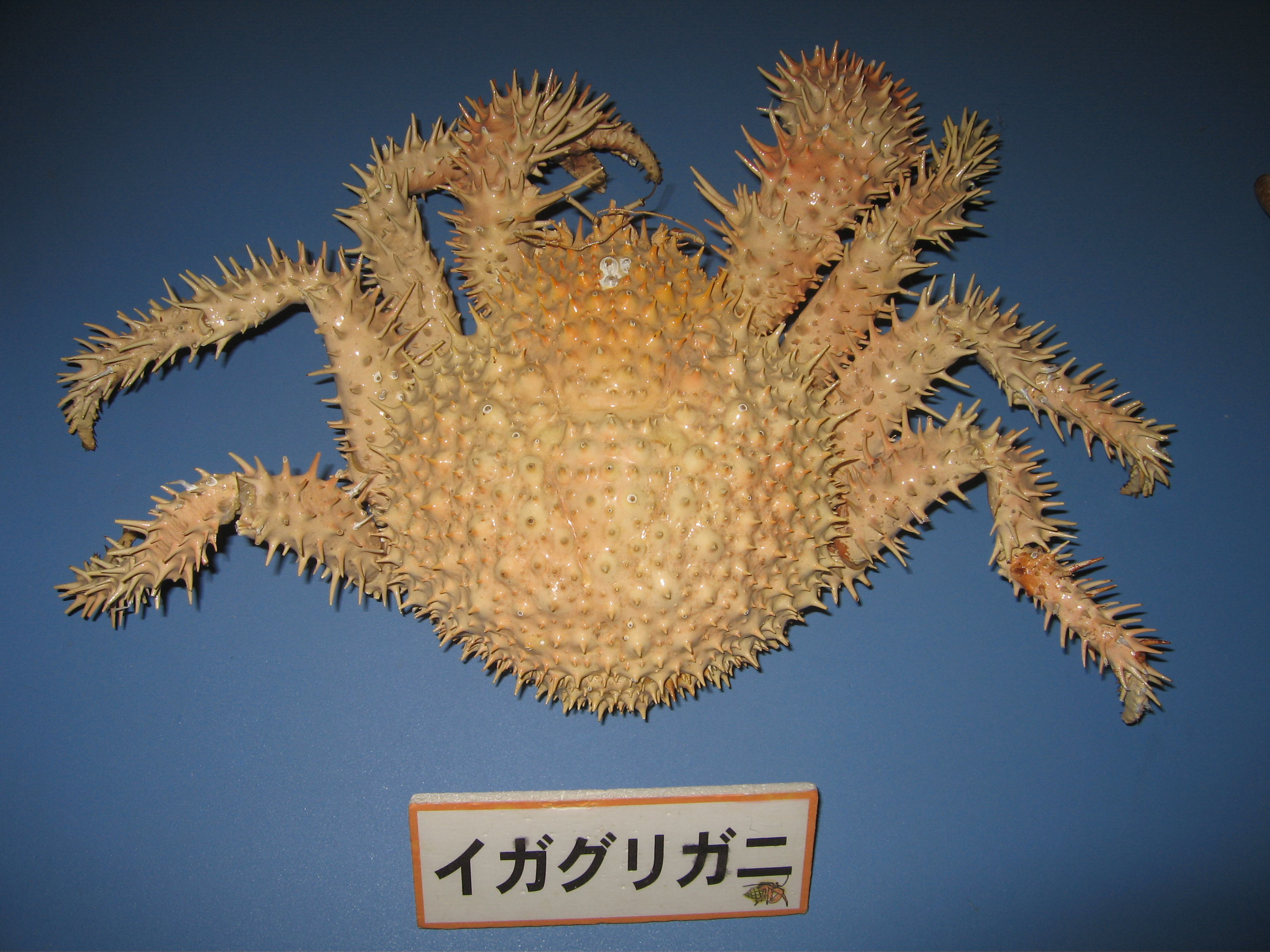 Paralomis hystrix